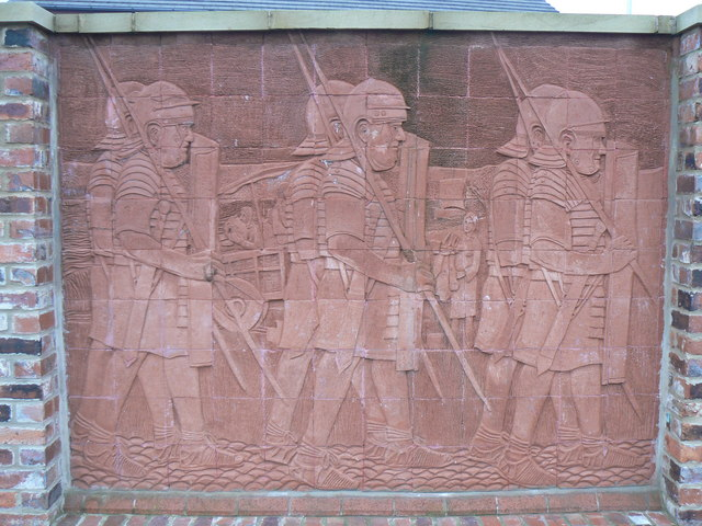 Terracotta relief representing Roman legionaries off Saville Road, near the junction with junction Church Street, Castleford, West Yorkshire